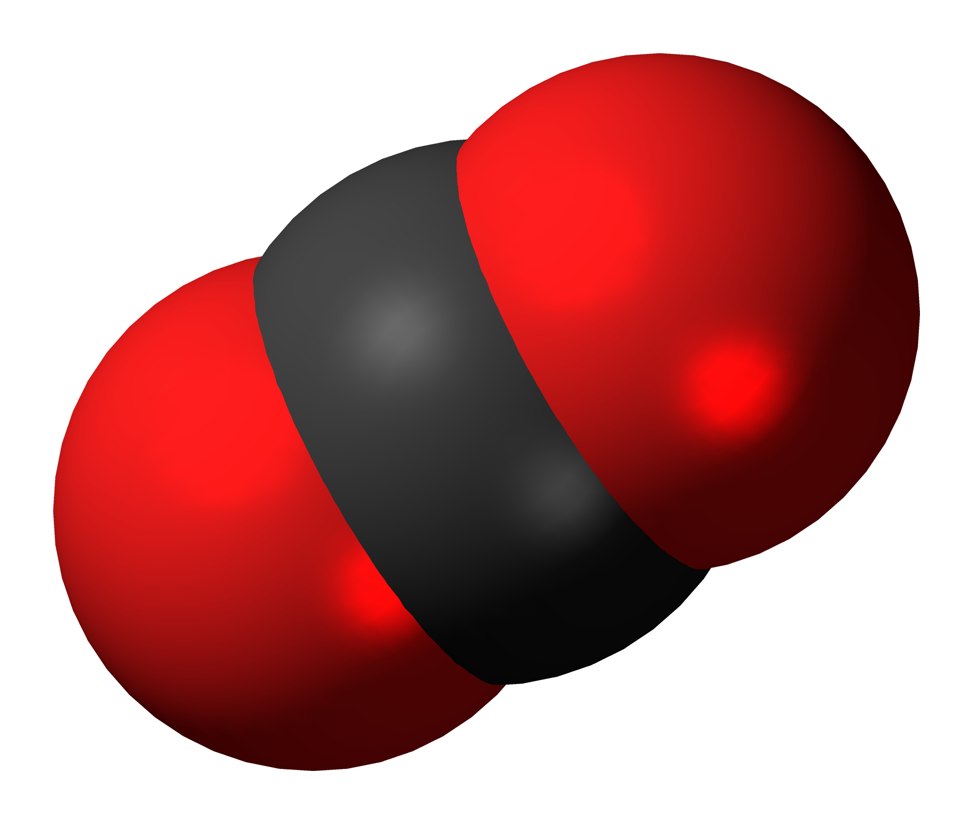 Space-filling model of the carbon dioxide molecule, one of the most important chemical compounds in the world - vital for life as we know it, but catastrophic at excess levels. Colour code: Carbon, C: black Oxygen, O: red